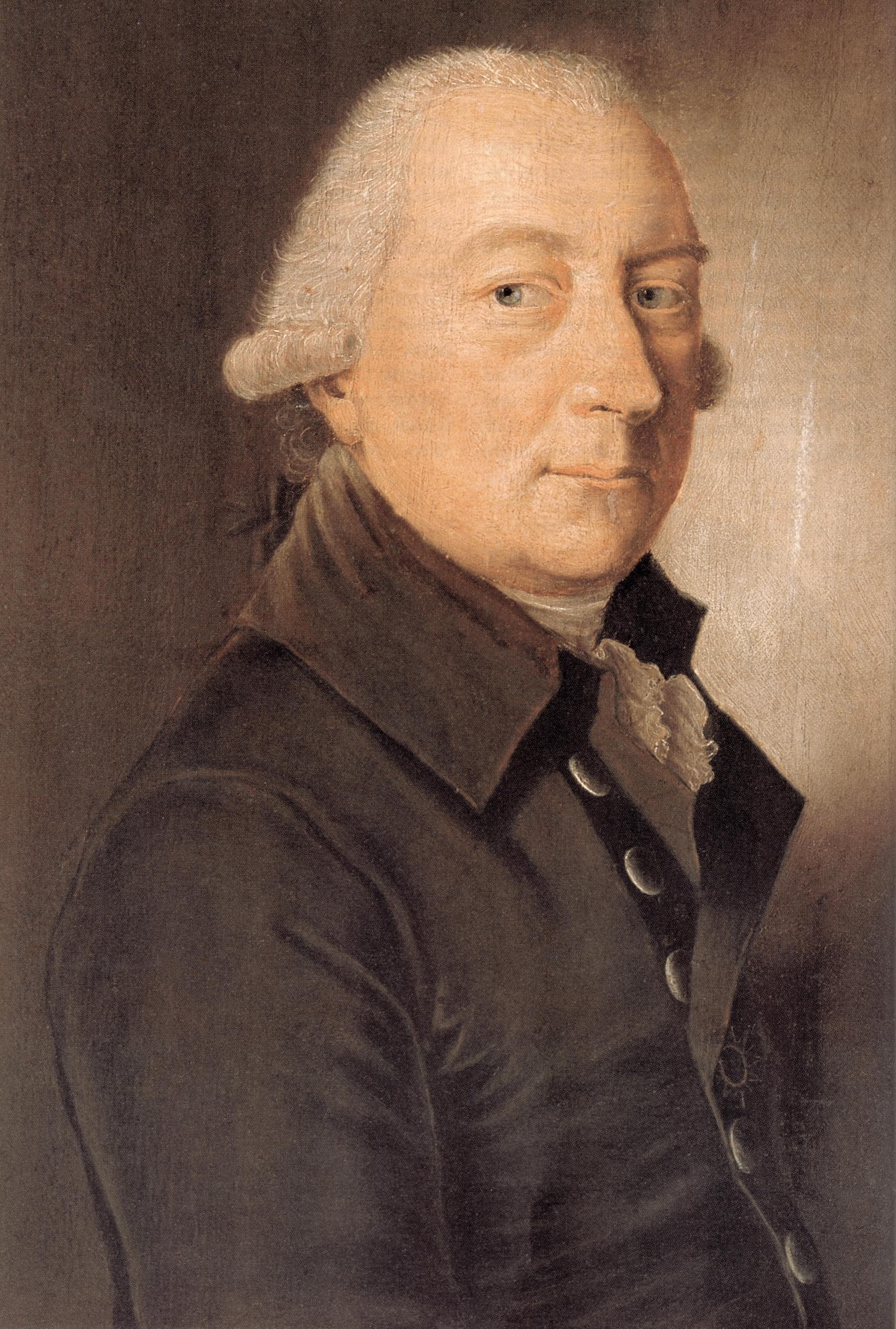 Portrait of Frederick Augustus, Duke of Nassau (1738-1816)